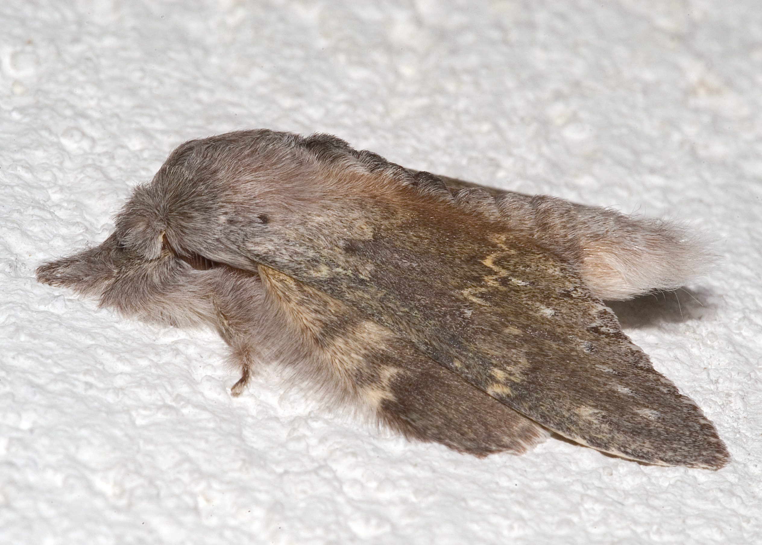 Please report references to kulacgmx.at.